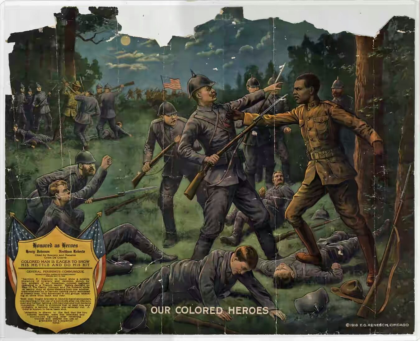 Our Colored Heroes (1918), by E.G. Renesch of Chicago. The "Our Colored Heroes" lithograph, published by E.G. Renesch in 1918, depicts the German raid on then-Pvt. Henry Johnson and Pvt. Robert Needham during World War I. The lithograph quotes Gen. Pershing, who praises the two African American sentries, who "continued fighting after receiving wounds and despite the use of grenades by a superior force." (Image courtesy of the Tennessee State Library and Archives)